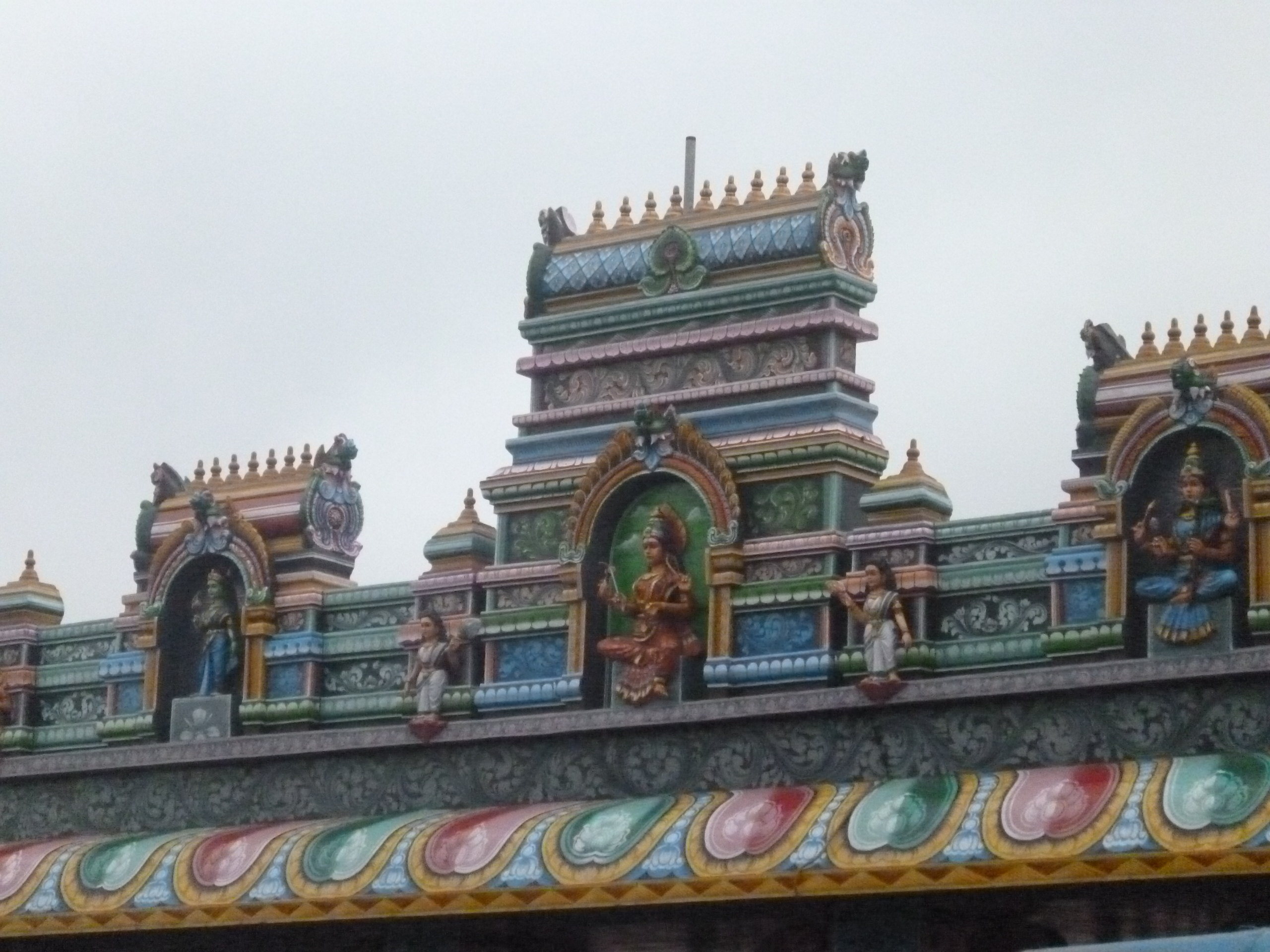 bannarai amman temple